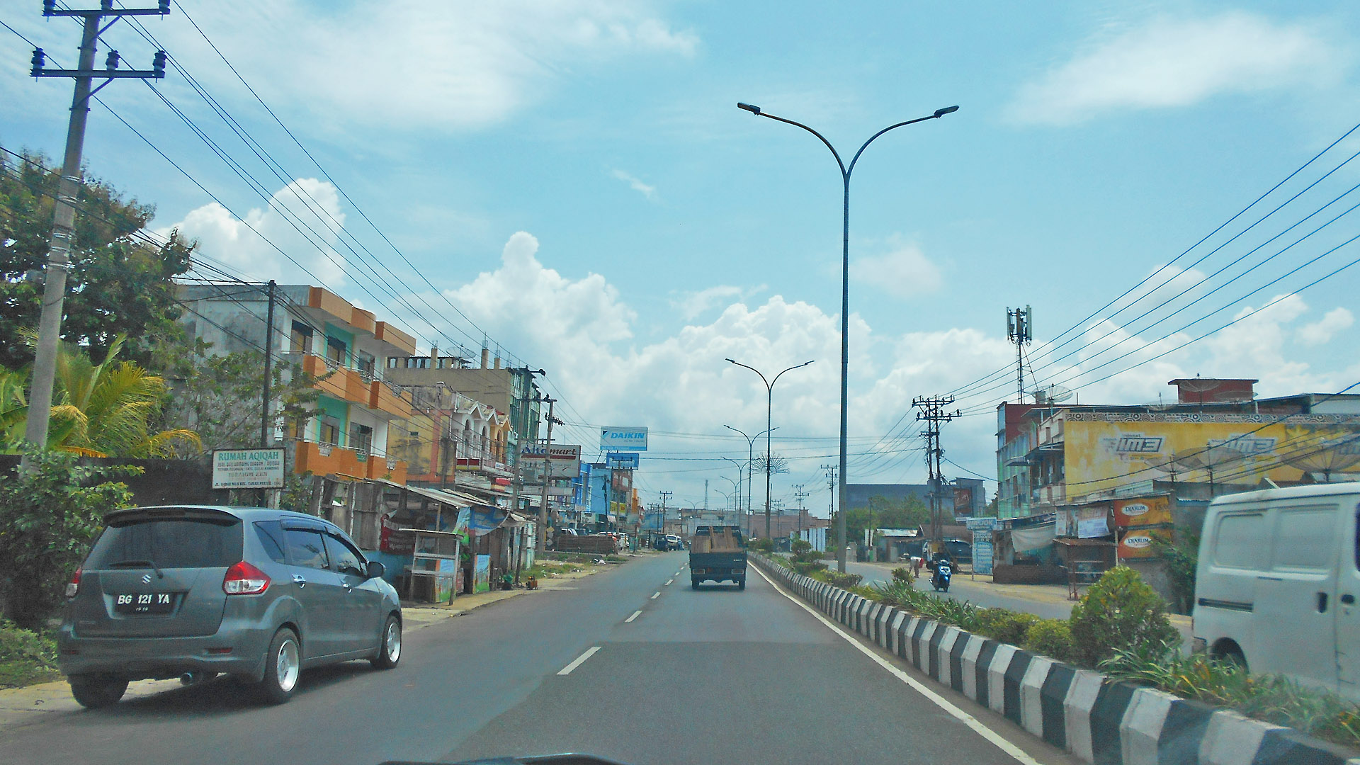 Trans-Sumatran Central Highway (Jalan Yos Sudarso or AH25), Lubuklinggau, SS